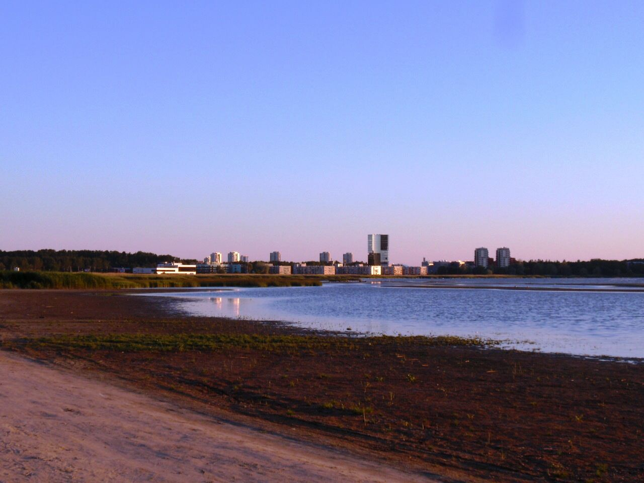 Haabersti seen from Stroomi Beach in Tallinn.